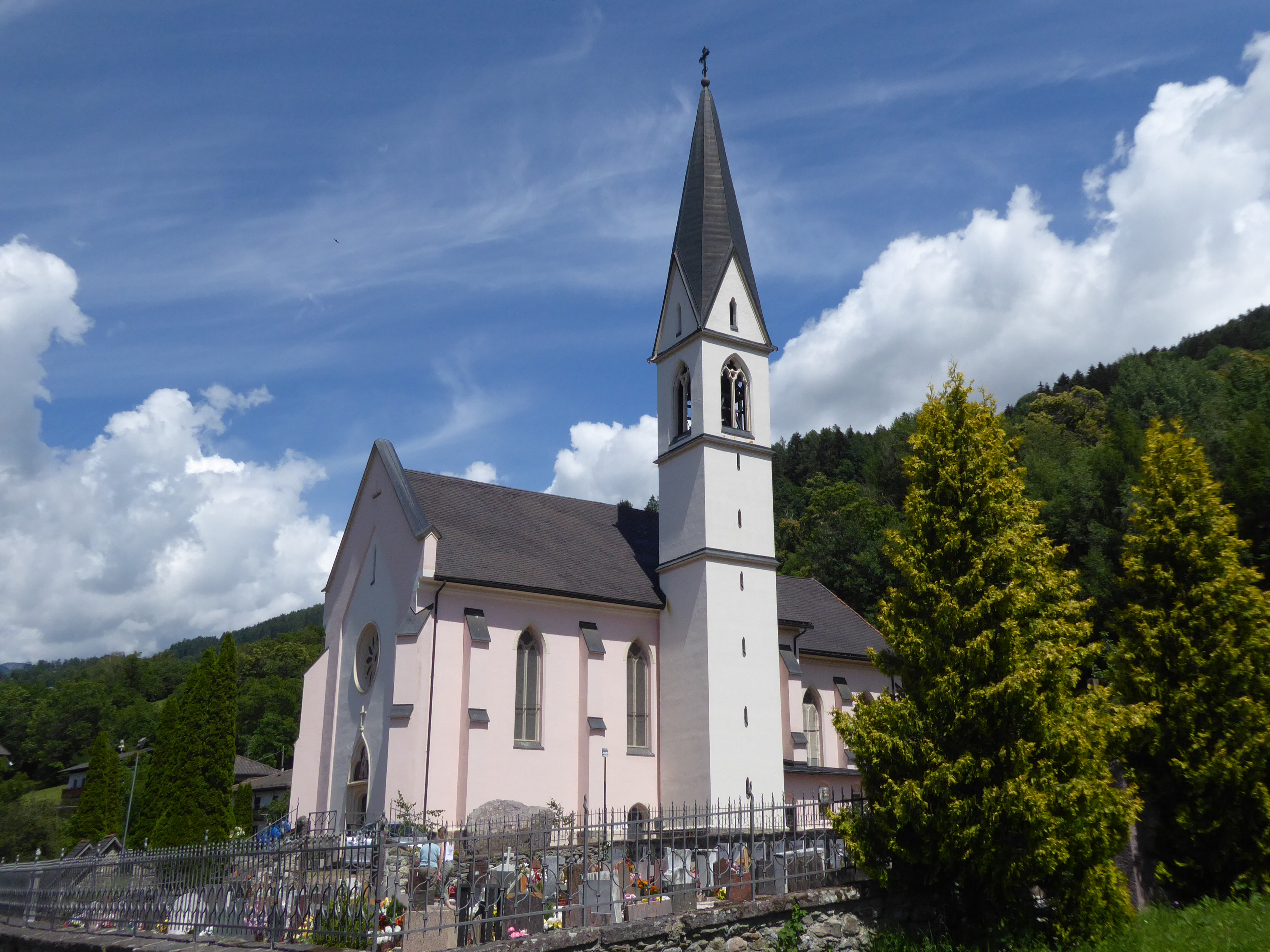 Frassilongo (Trentino, Italy), new Saint Ulrich church